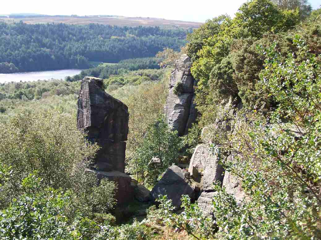 Rivelin Rocks with the Needle in front and Rivelin Dams in the background. Personal photograph taken by Mick Knapton on October 2nd 2006